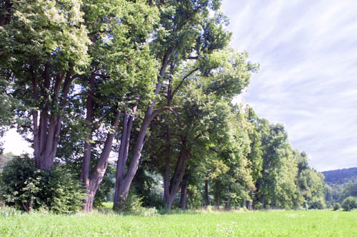 Avenue Alej vzdechů in Plasy.